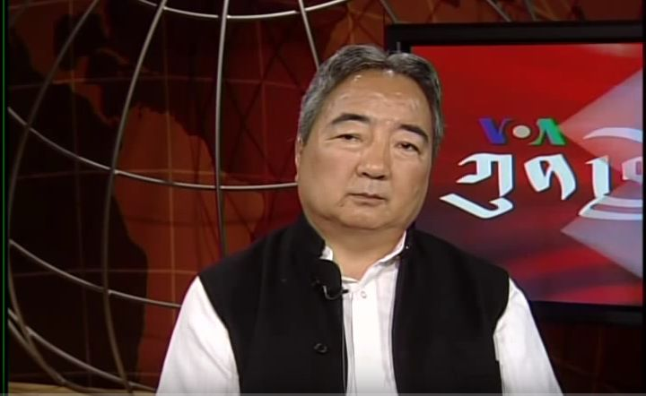 Kunleng invites Lobsang Jinpa, spokesperson, Washington DC Kalachakra Committee, to discuss next week's Dhukhor Wangchen in the US capital, and highlights of previous Kalachakra initiations given by the Dalai Lama around the world.